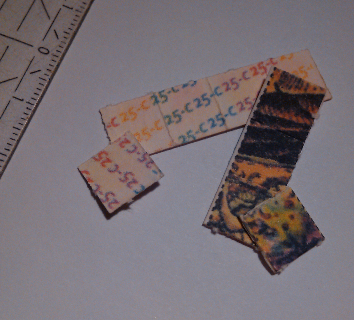 blotter papers containing 1200µg 25C-NBOMe each